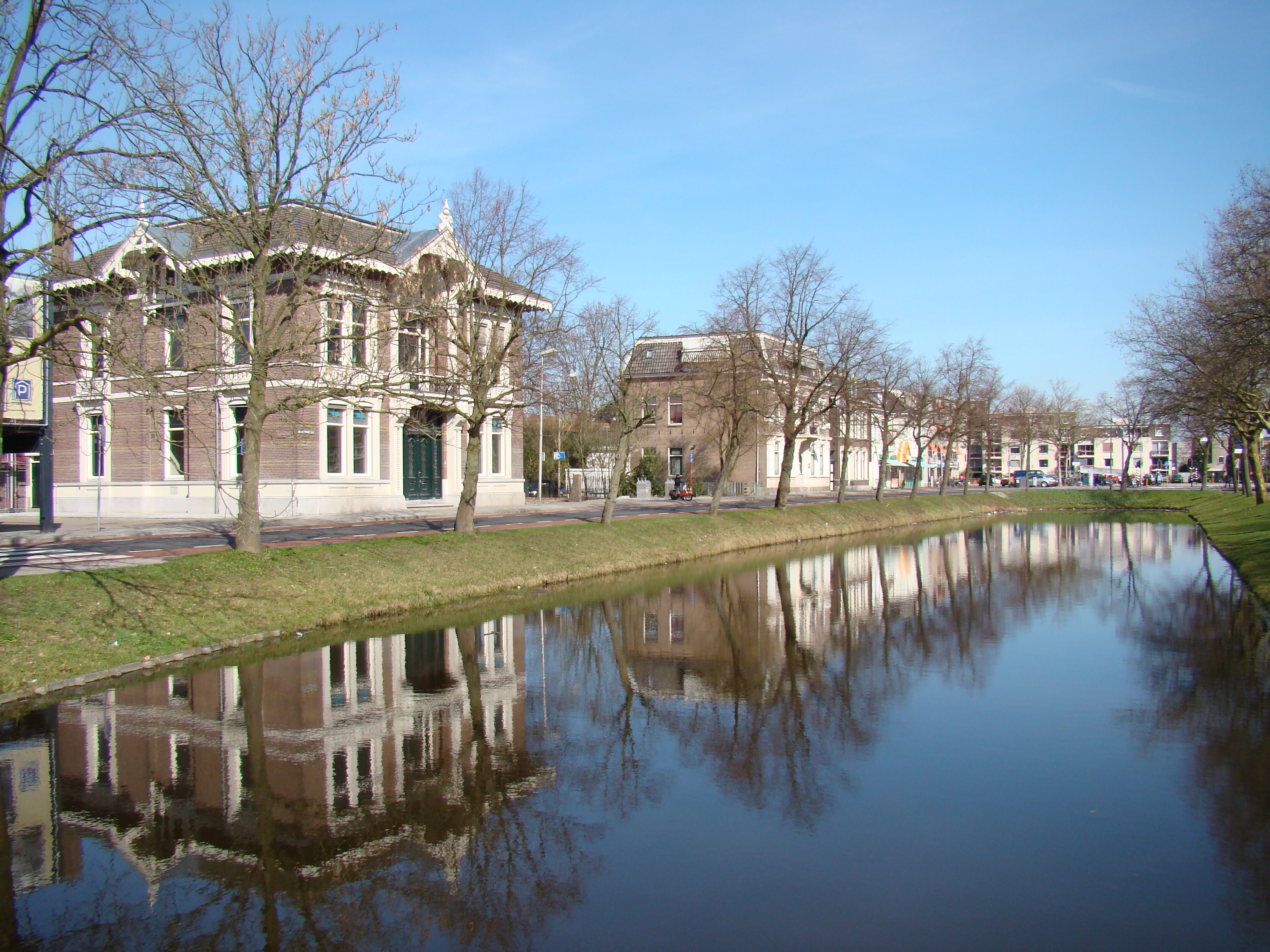 Impressions of the city Purmerend, Netherlands